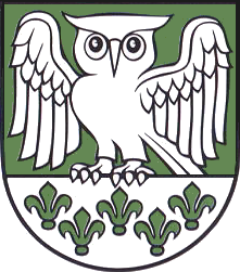 Coat of Arms of Uhlstädt